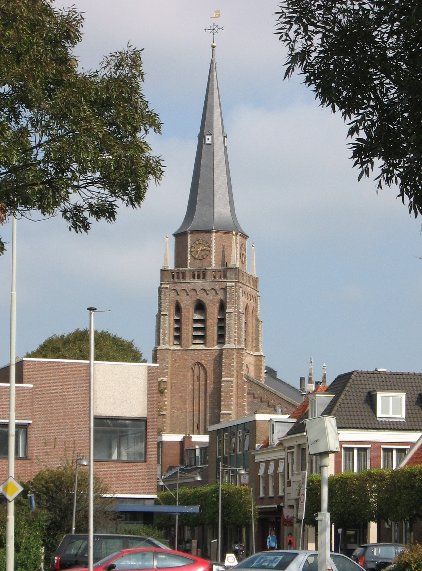 Dorpskerk